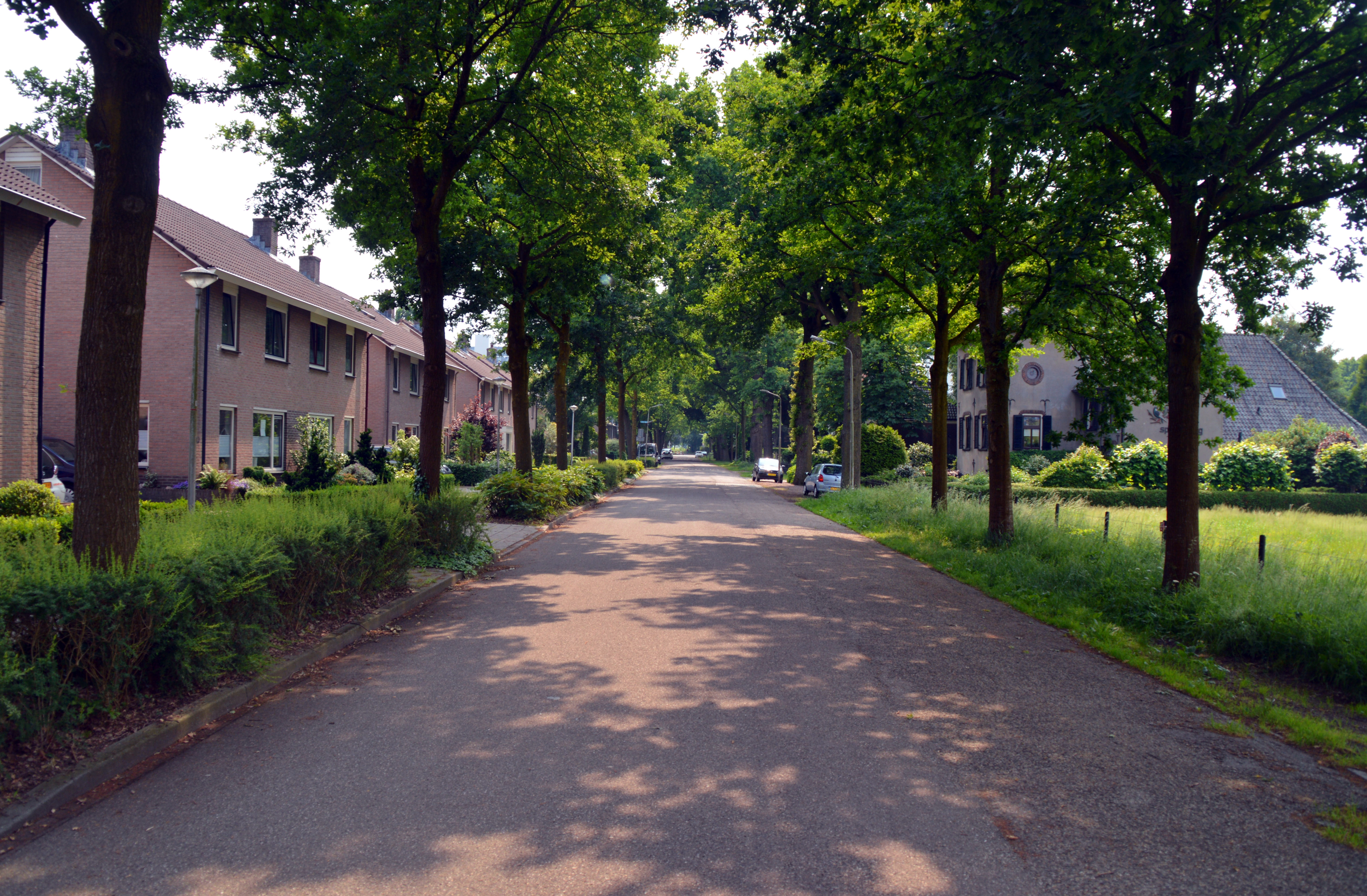 Dorpsstraat Neerbosch Nijmegen